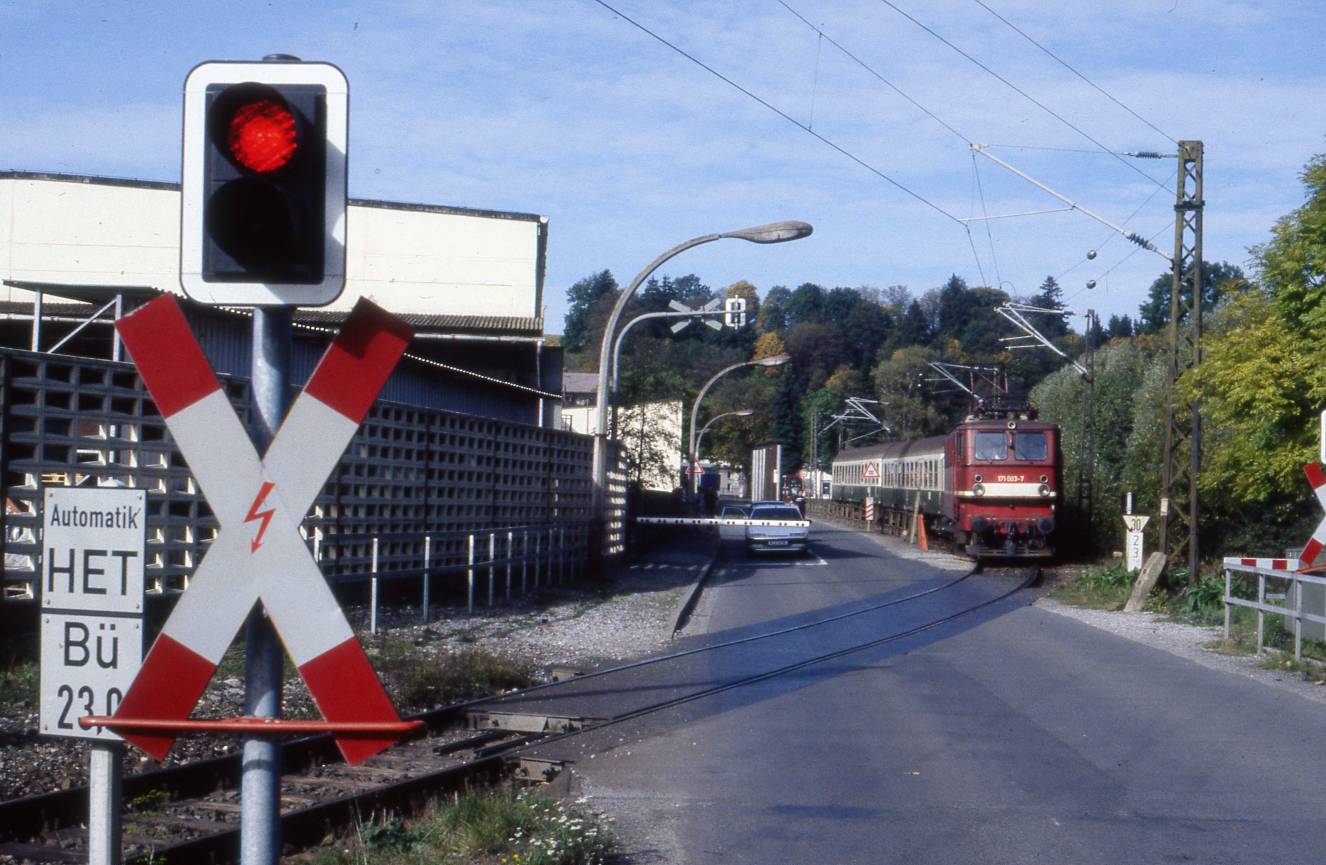 The Rübcbelandbahn used to terminate just behind the camera, but has now been cut back to Elbingerode. Ex-DR 171 003-7 brings three coaches still in Deutsche Reichsbahn green into the terminus from Blankenburg. In former times, the line also served the large foundry and oven manufacturing business, VEB Gießerei und Ofenbau Königshütte, just short of the terminus. Locomotives on this line ran under a 25kV 50hz system, rather than the 16.66hz system in the rest of Germany owing to the very steep adhesion gradients. Perhaps 1:15 at maximum. Thus this line was completely separate from the rest of the DR network for locomotion, but obviously wagons could be exchanged on the same gauge at Blankenburg for onward transport by diesel. Koenigshuette lies at 343m above sea level,but the line climbs sharply from Blankenburg (199m) to the highest point at Hornberg (505M) in not many miles. The line is now goods only from May 1999, with the Fels Netz GmbH Rübeland operating the limestone trains. 10 out of the original 15 class 171 locomotives are in operation.However, the electricity was turned off in May 2005: diesel locomotives were being used on this branch by the Osthavelländische Eisenbahn AG (OHE) and this accounted for two thirds of the traffic on the line, making Railion's use of electric locomotives uneconomic... Only at the end of 2008 was the power turned back on. In pre-war times, the line extended beyond the terminus here to Tanne, where the line connected with the Harzquerbahn narrow gauge railway.